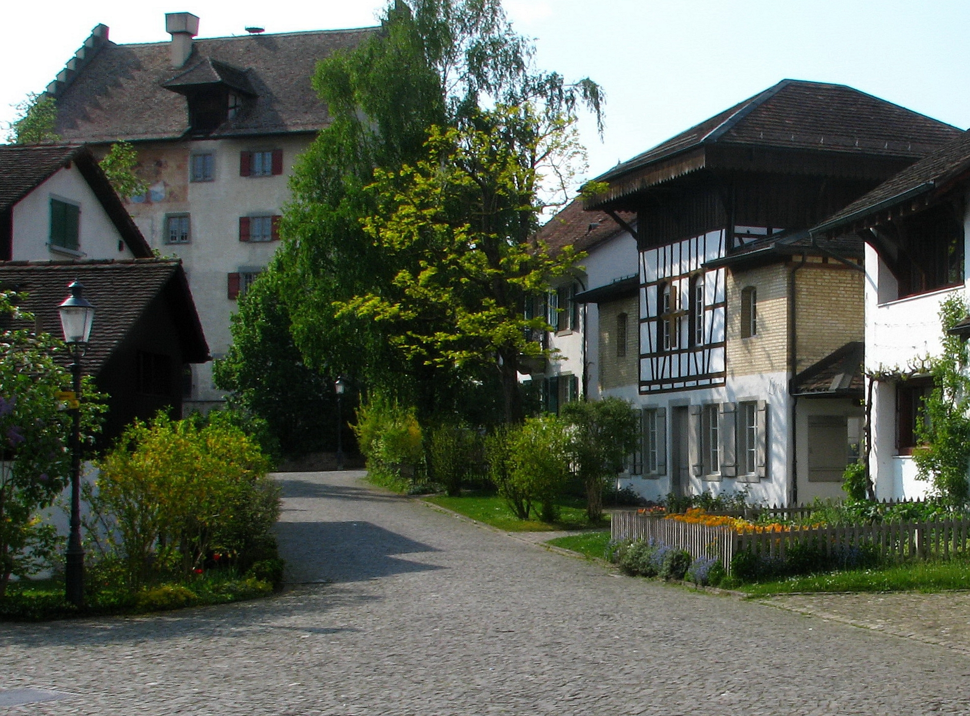 The Altstadt of Greifensee (ZH) and Greifensee castle in the background, as seen from the Gallus chapel